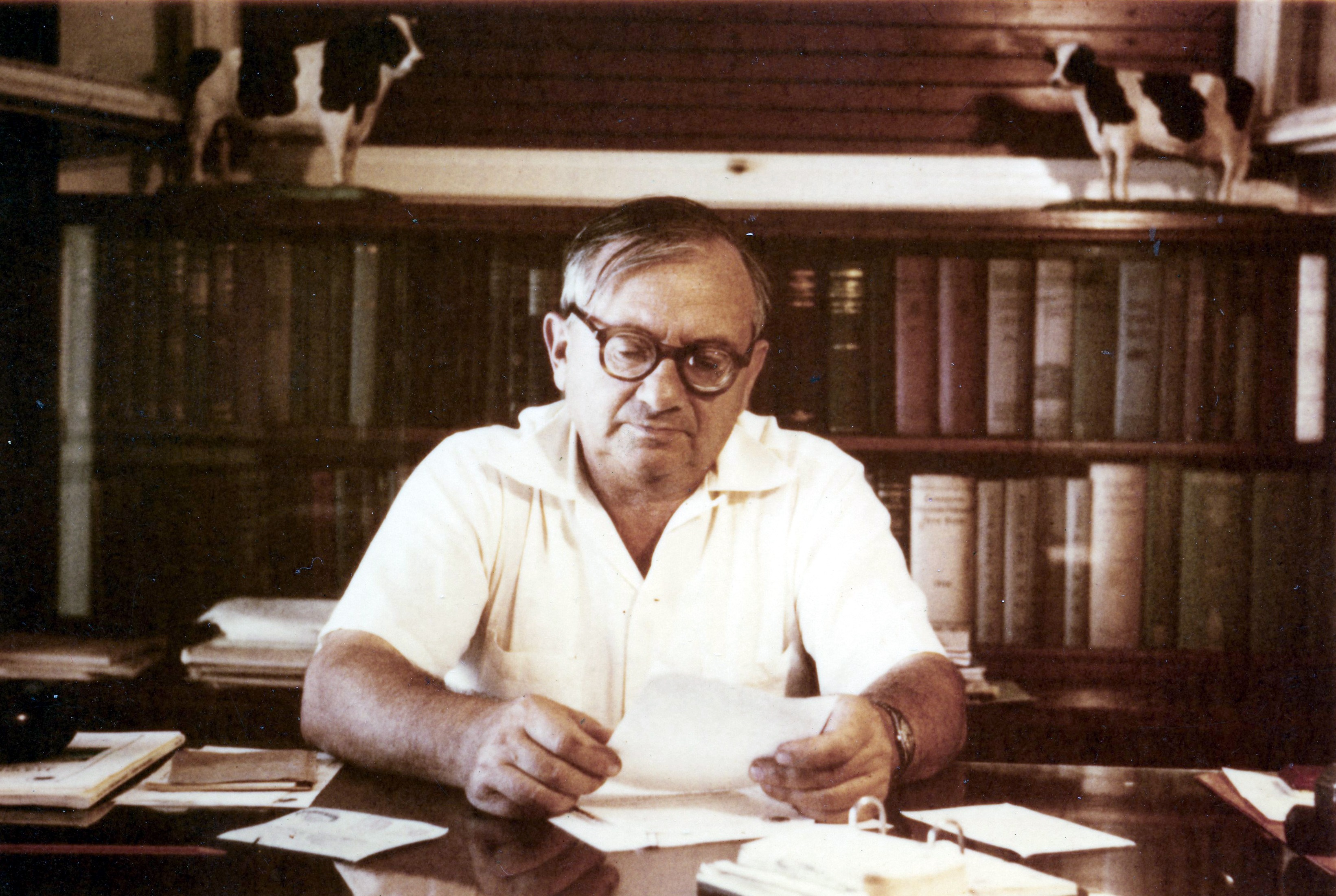 Ephraim Shmaragd